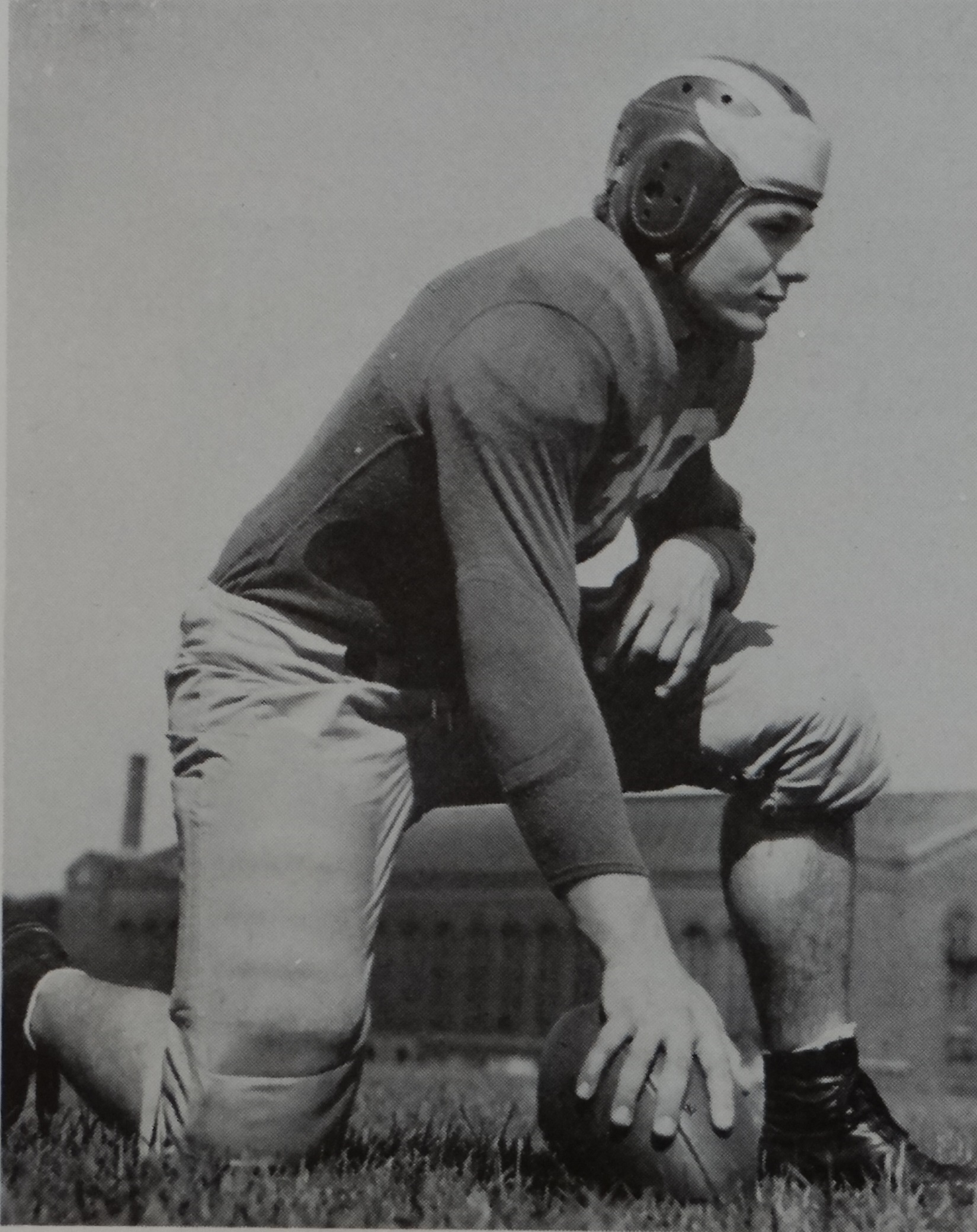 Photograph of University of Michigan center Dan Dworsky Photograph of University of Michigan center Dan Dworsky